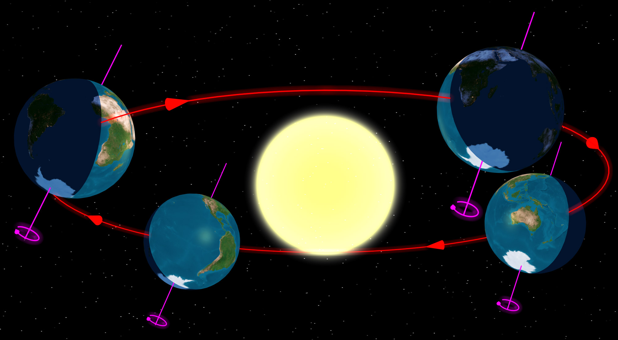 The Earth at the start of the 4 (astronomical) seasons as seen from the south and ignoring the atmosphere (no clouds, no twilight).